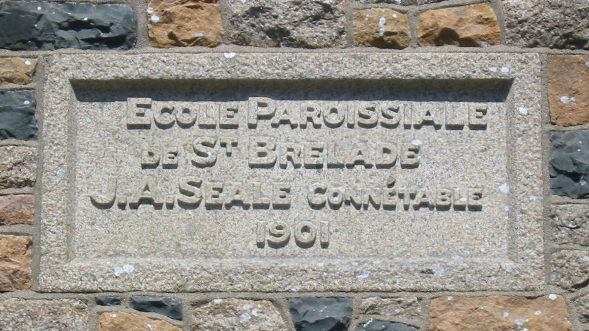 Saint Saint Brelade, Jersey